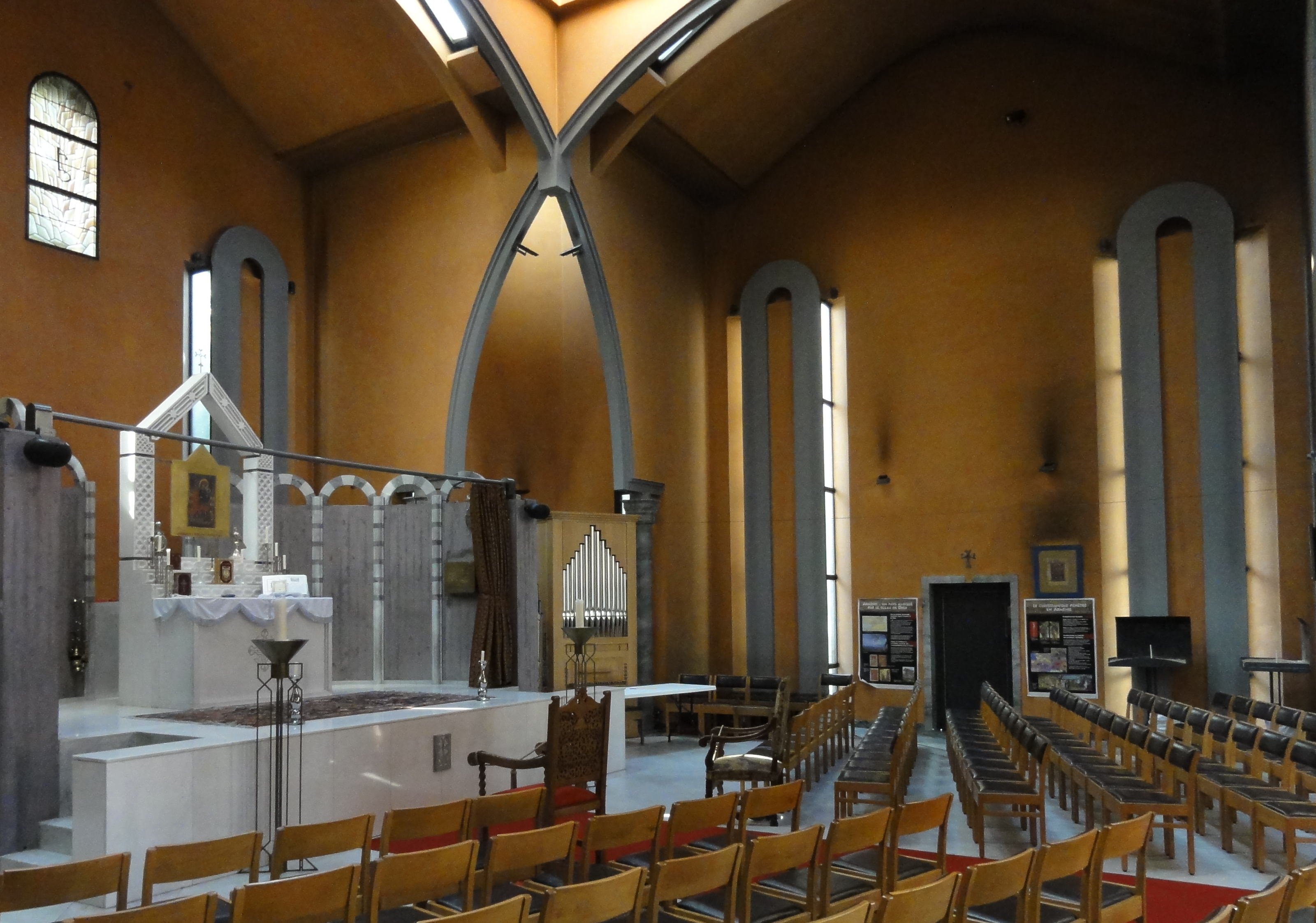 Saint Mary Magdalene Church (Armenian Apostolic Church), Brussels. Interior.